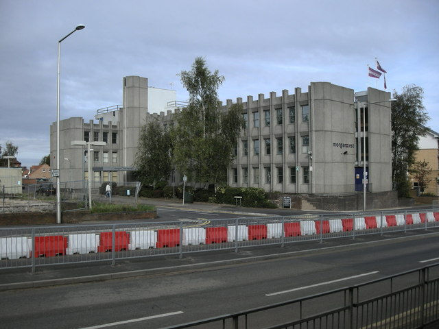 Rugby-Millbuck House The concrete office block built in the 1970s as a headquarters for Construction Company Miller Buckley.Now th headquarters of Morgan Est.